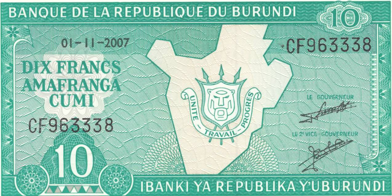 Burundi 10Franc Front